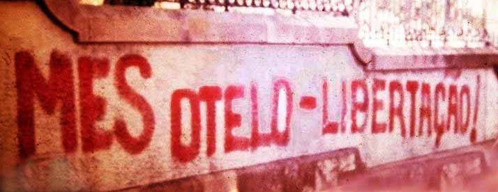 MES Liberation of Otelo